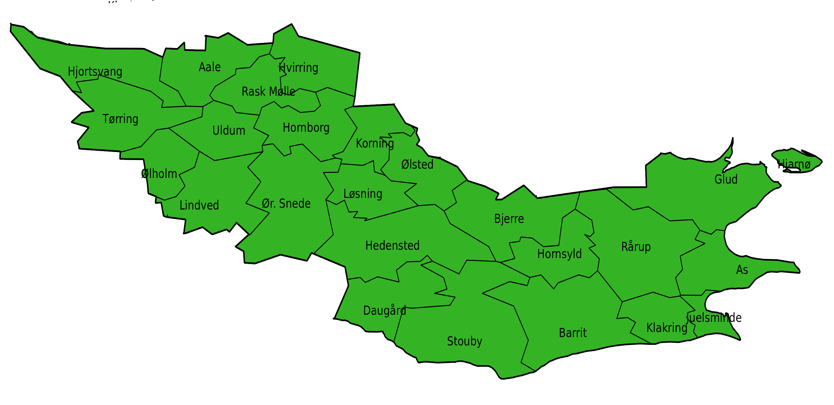 Detailed view of the Hedenstedkredsen constituency in Denmark